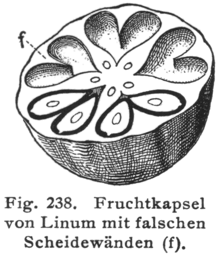 Figure 238 from Hegi, G.: Illustrierte Flora von Mittel-Europa, p. 128. Caption: Fig. 238 Capsule of Linum with false septa.